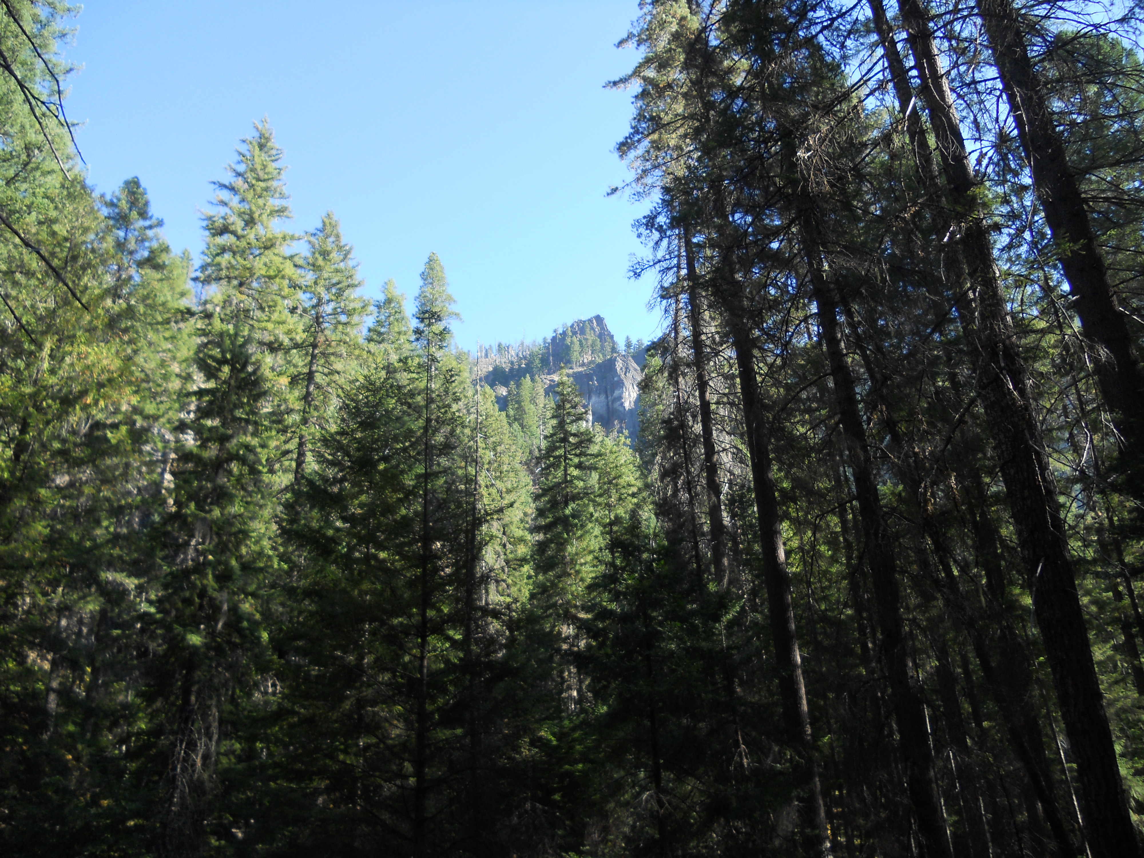 Douglas fir and Ponderosa pine trees in the Boulder Creek Wilderness in the southern Oregon Cascades